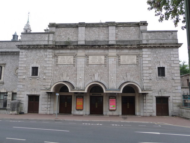 Torquay: Town Hall eastern entrance The main entrance to the public hall, fronting onto Lymington Road. The three inscriptions are, left to right: To know that which before us lies in daily life is the prime wisdom – Milton Health and cheerfulness mutually beget each other – Addison Good company & good discourse are the very sinews of virtue – I. Walton